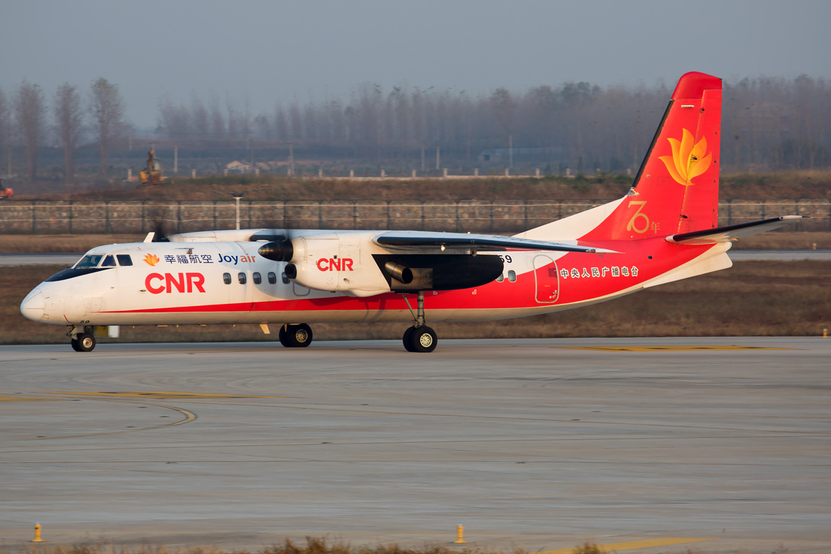 Joy Air Xian MA-60 at Hefei Xinqiao International Airport